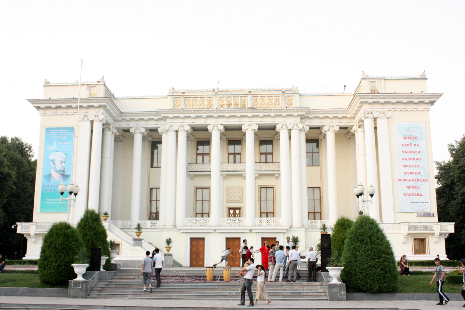 Ayni Opera, Dushanbe, Tajikistan